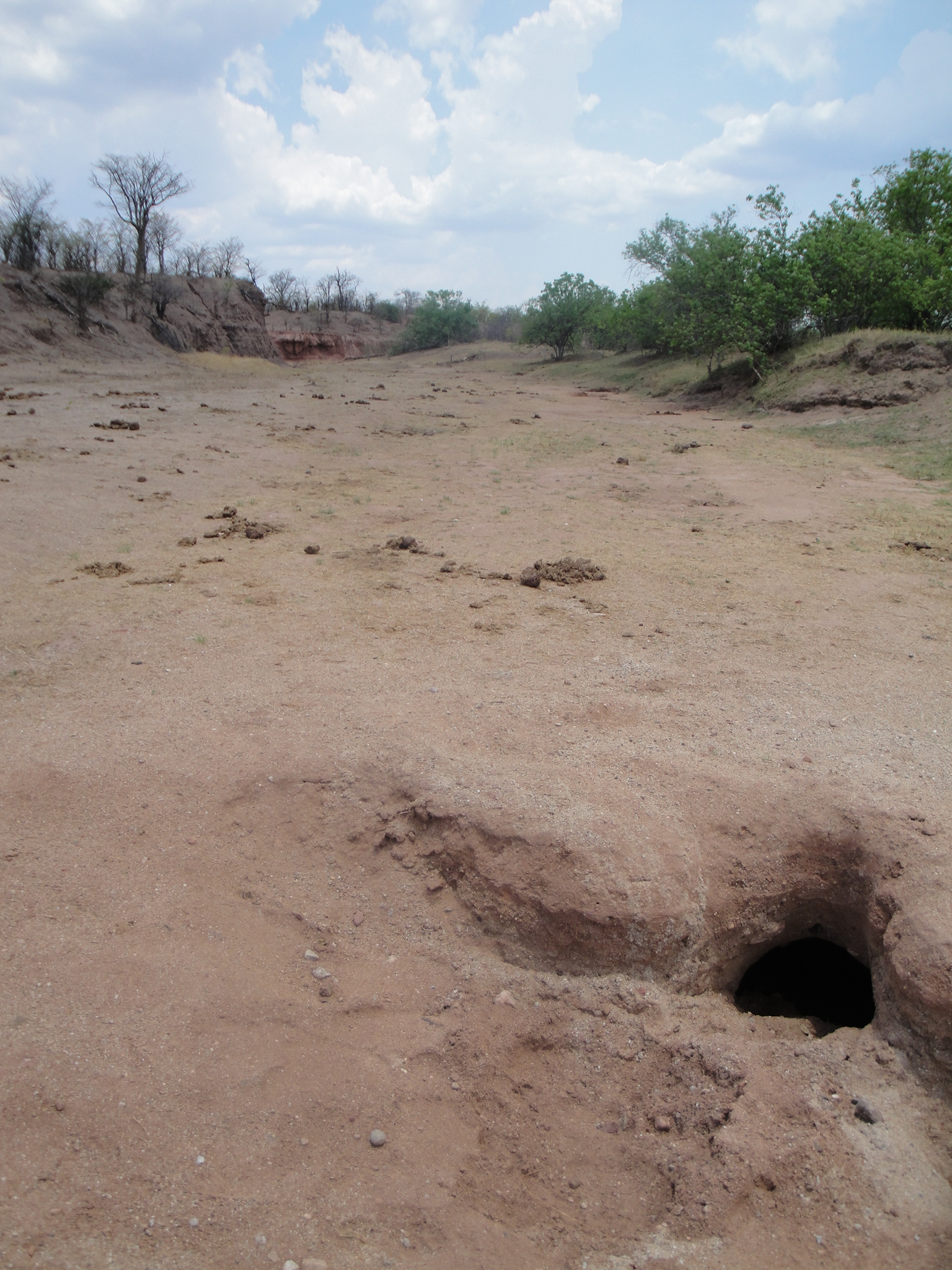 Lukosi river bed, Sinamatella wild area, Hwange National Park